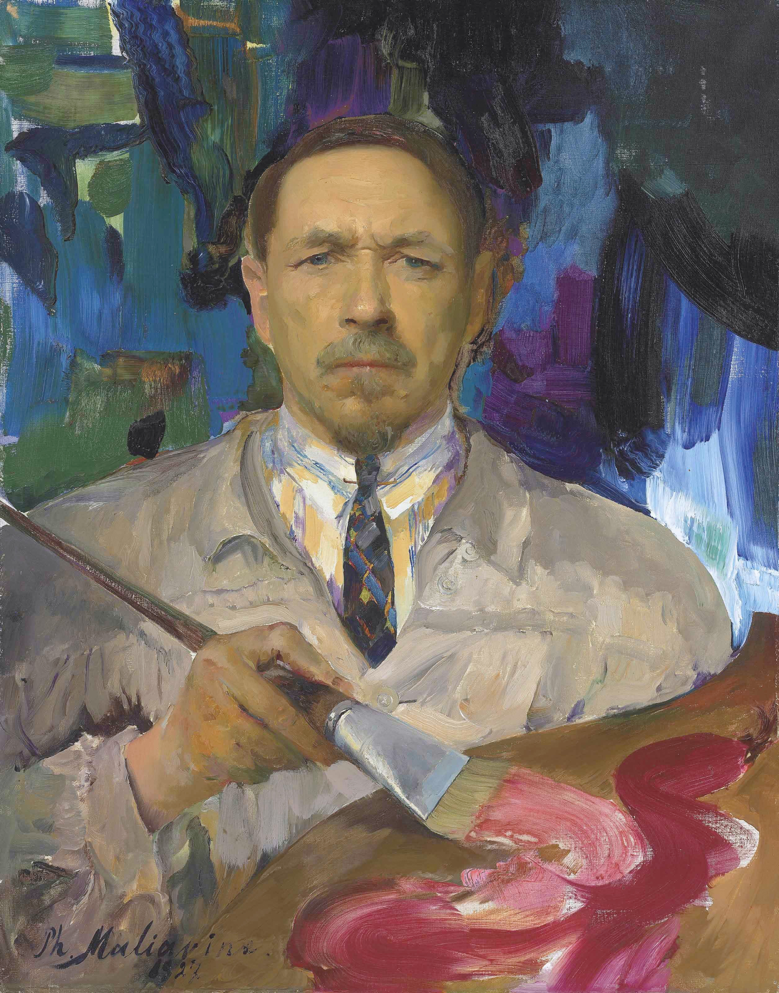 Self-portrait oil on canvas 91.8 x 72.5 cm signed and dated l.l.: Ph. Maliavine / 1927